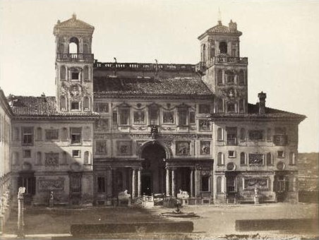 The Garden-front of the Villa Medici